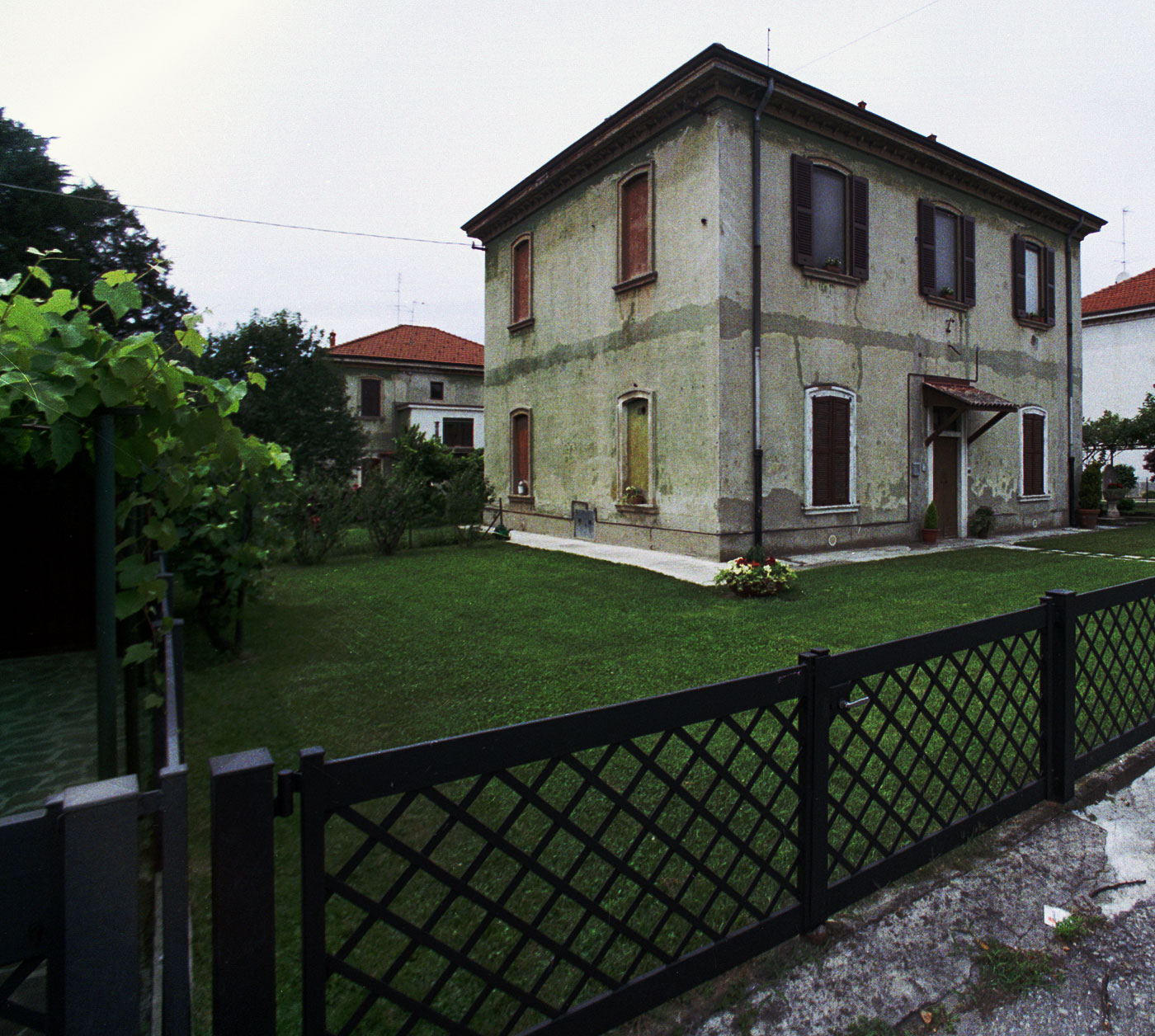 A factory worker's house in the industrial model village of Crespi d'Adda, Lombardy, Italy